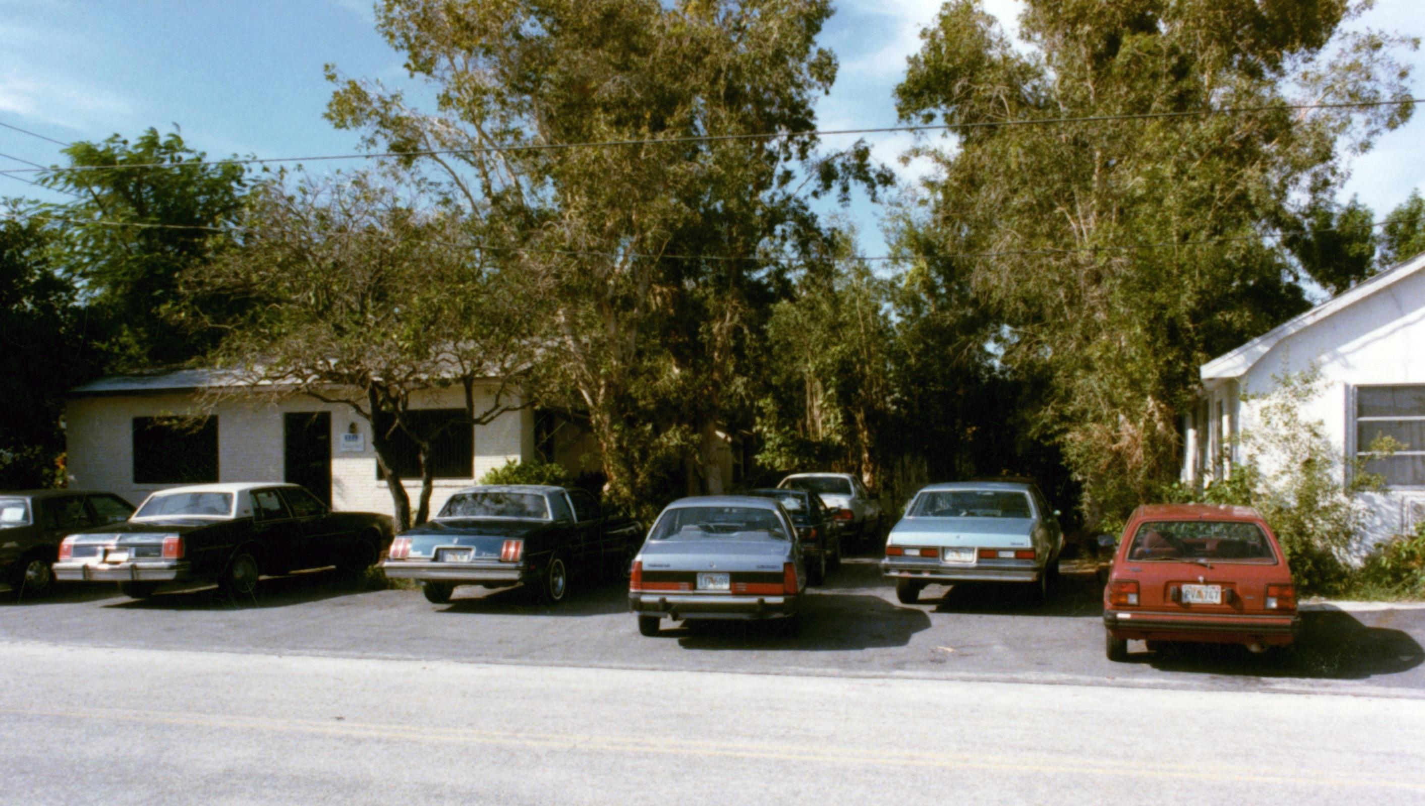 CORE offices 1981